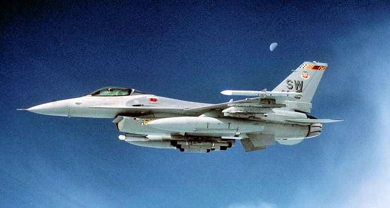 SAF F-16C block 50, #92920, with a beautiful moon in the background [USAF photo by SA Greg L. Davis]